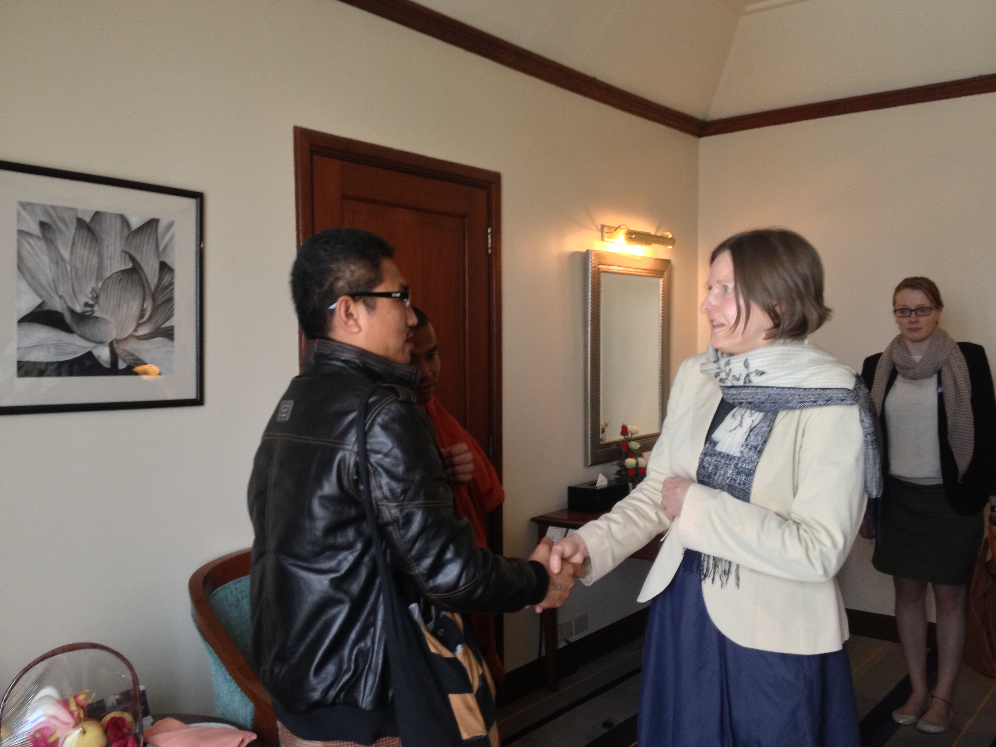 Nyi Nyi Lwin (former Monk U Gambira) greets Finnish International Development Minister Heidi Hautala in Yangon, Myanmar on 22 January 2013.